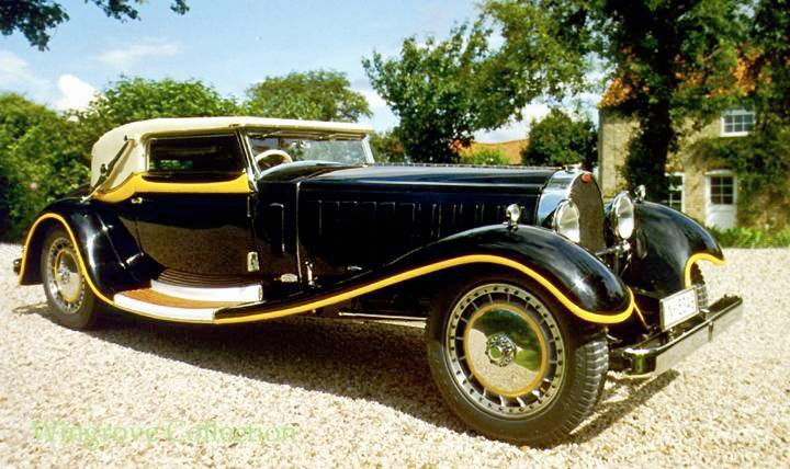 Photograph of 1931 Bugatti 41 Royale Cabriolet Weinberger by Gerald Wingrove. This hand-built scale model shows the car with its original paint scheme.